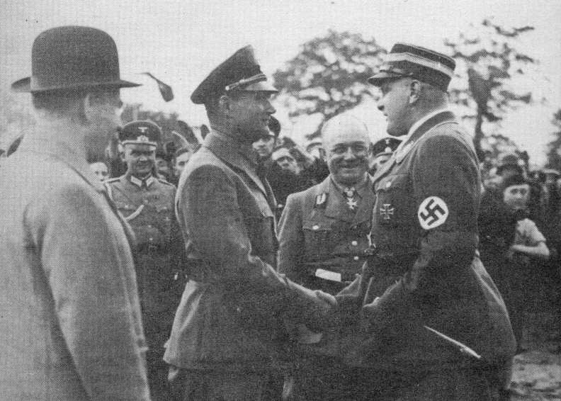 NSDAP-politician and Deputy Fuehrer Rudolf Heß and SA-Obergruppenführer Edmund Heines shaking hands.